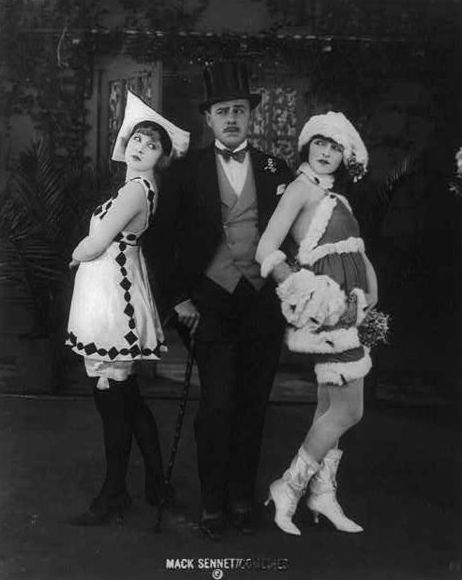 Marvel Rea (left), Ford Sterling, and Alice Maison, appearing in Mack Sennett Comedies